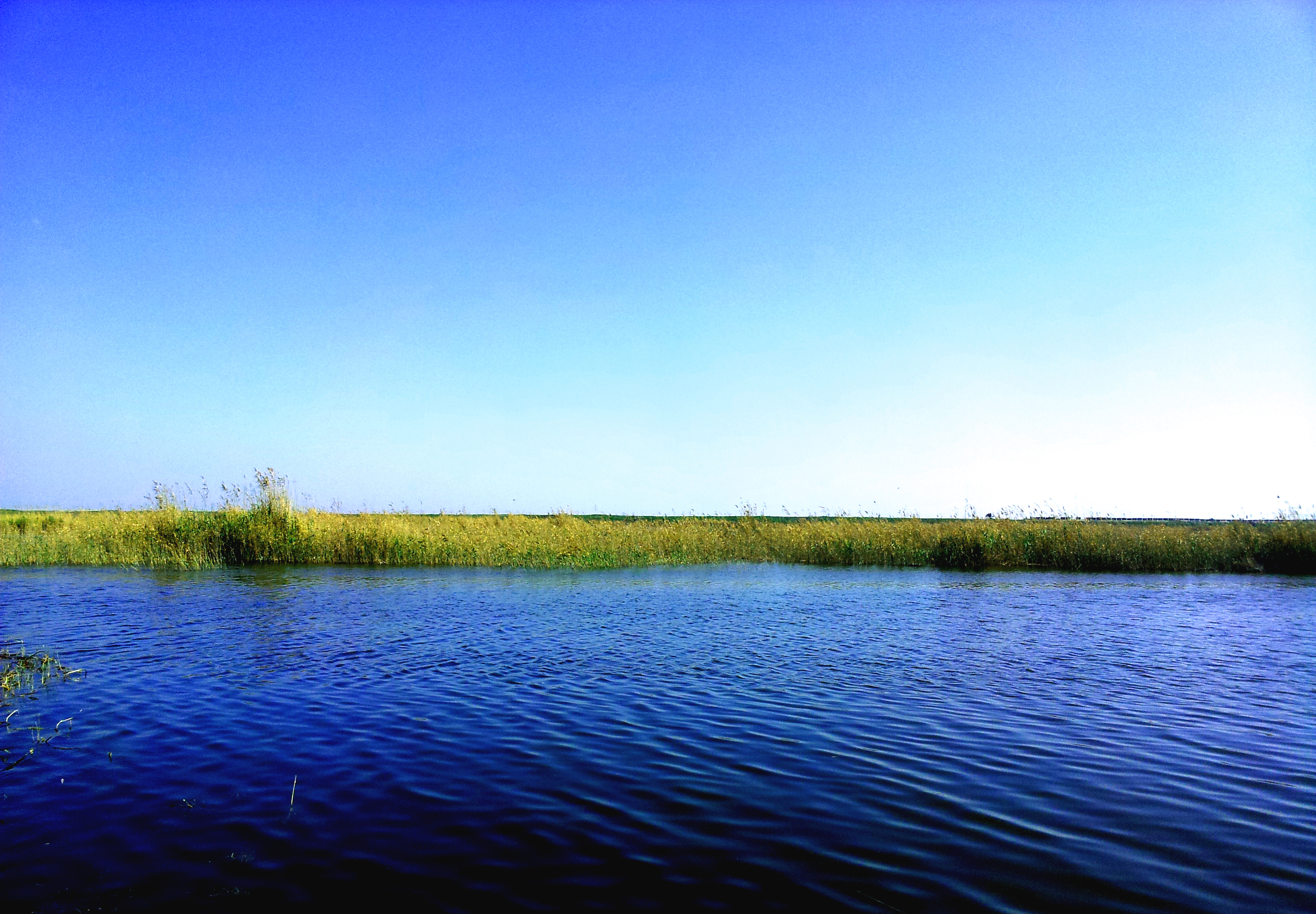 Lake Mariout, located due south of Alexandria, Egypt.